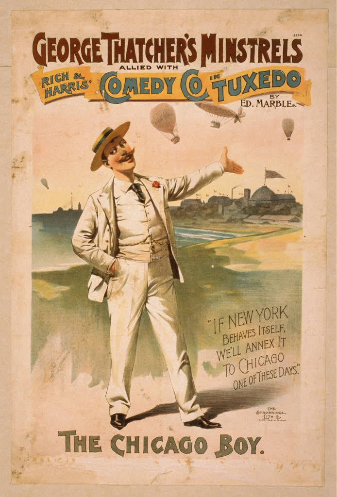 Source: Minstrel Poster Collection (Library of Congress) at Library of Congress Prints and Photographs Division Washington, D.C. Online at: Advertisement for Tuxedo, 1891